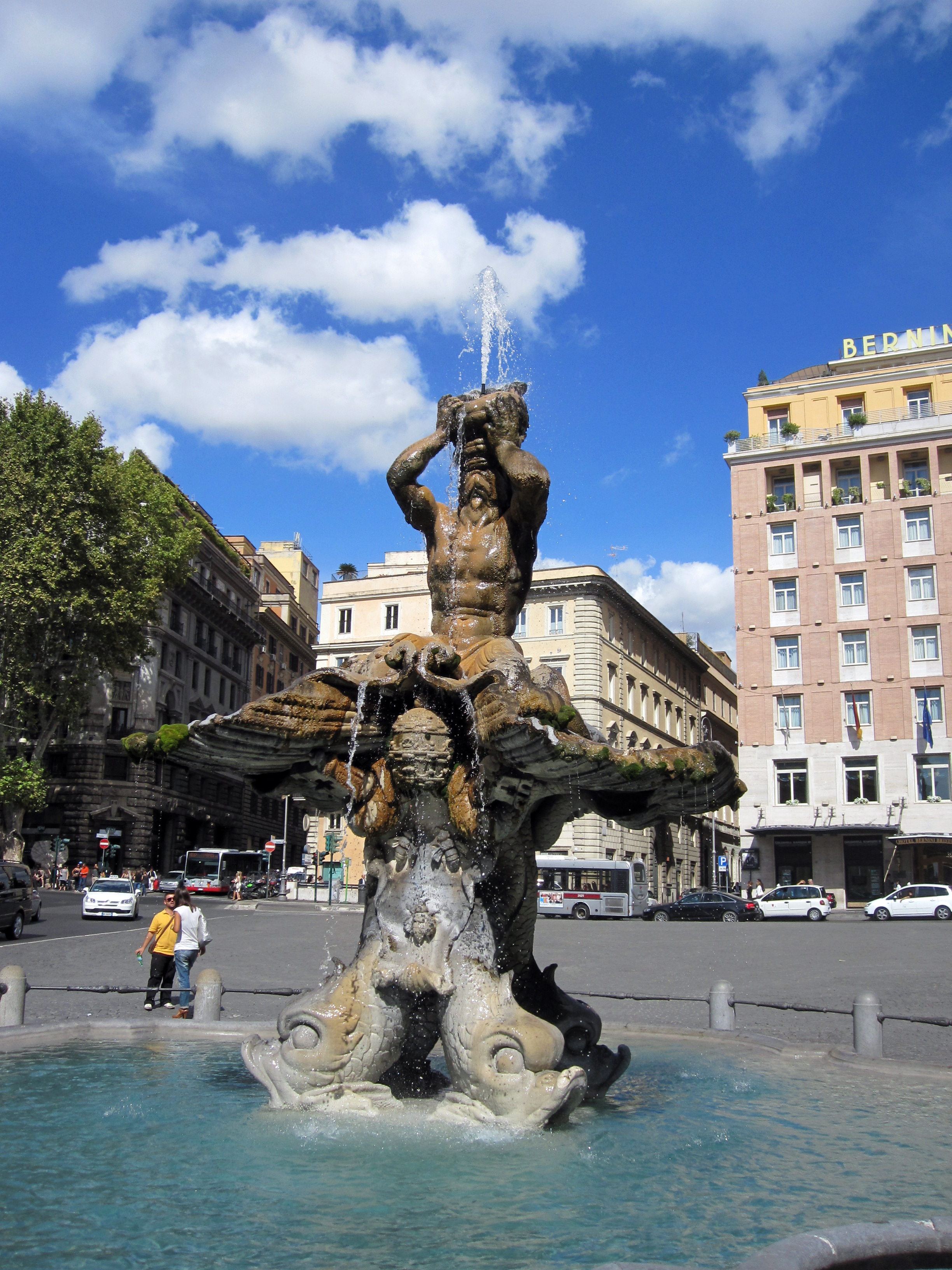 Fontana del Tritone by Gian Lorenzo Bernini